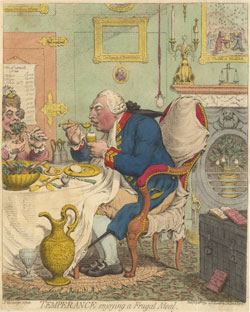 Temperance Enjoying a Frugal meal by James Gillray